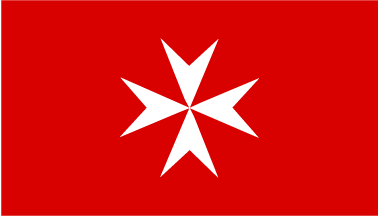 Flag of the Grand Master (adopted in 1113)